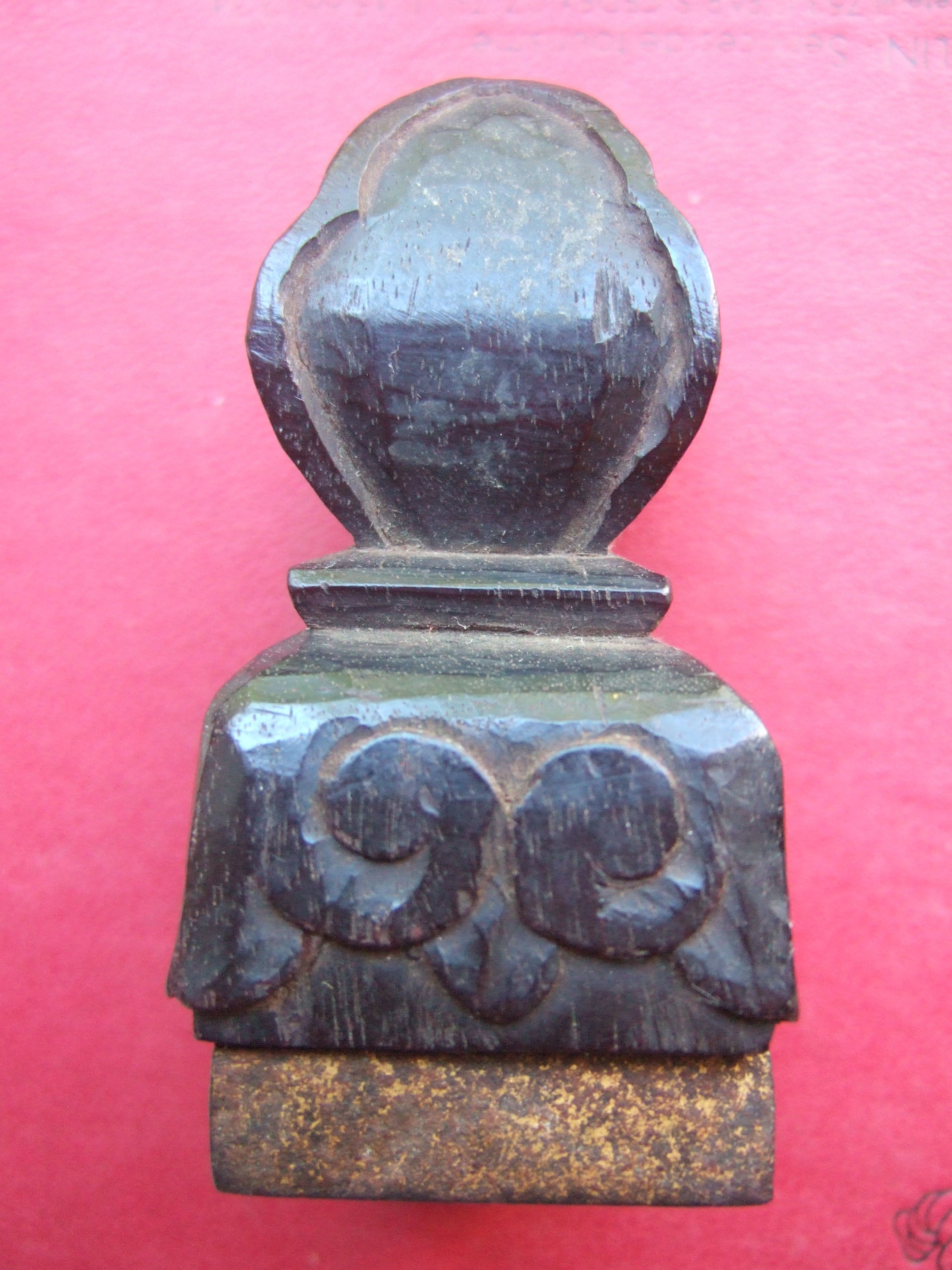 Tibetan seal with wooden handle, no. 1